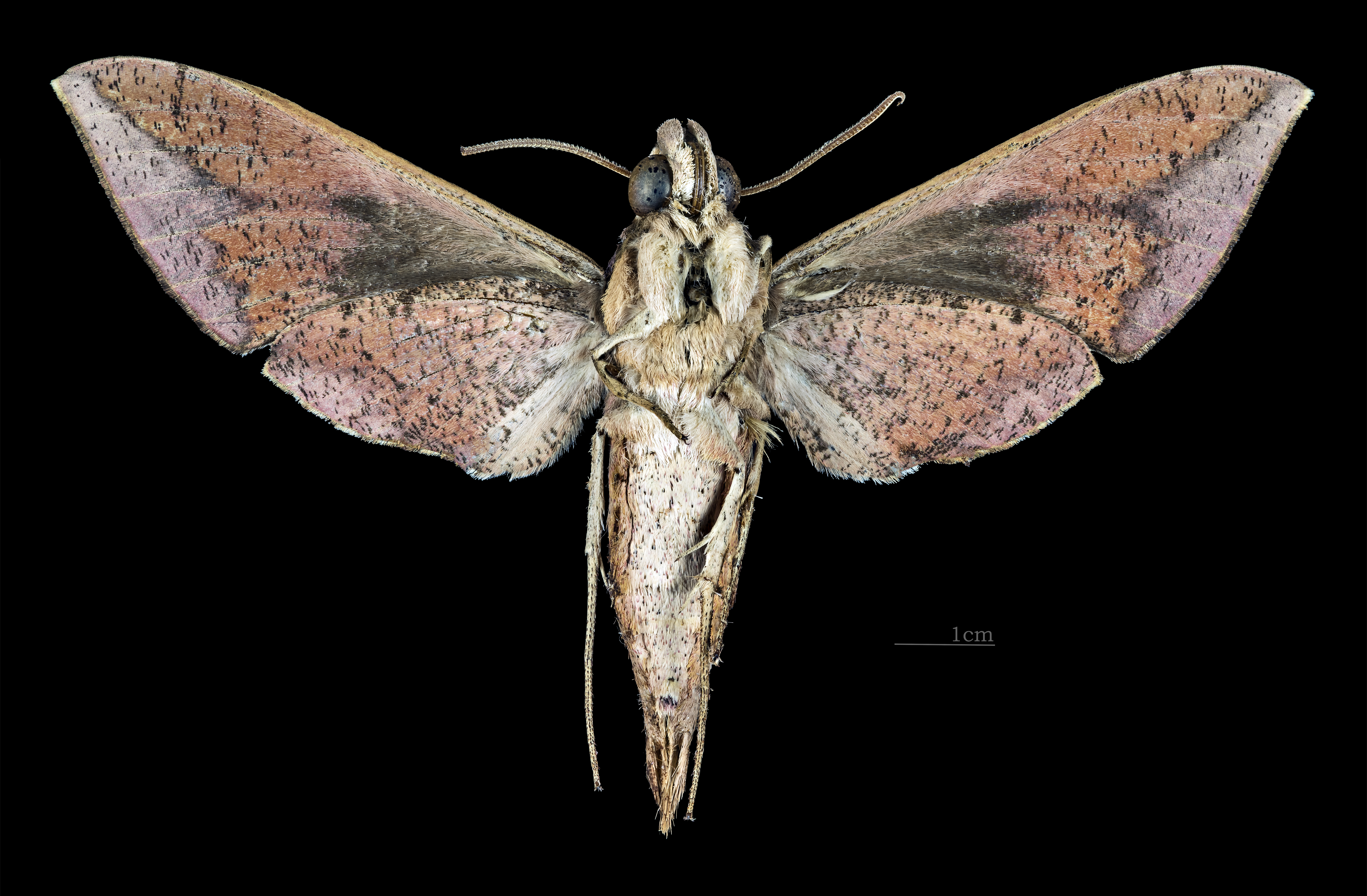 Rhagastis velata - △ Ventral side Collection of the Mathematician Laurent Schwartz